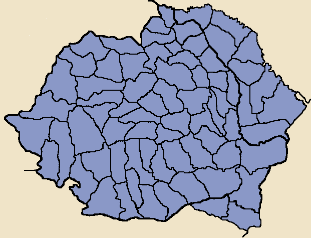 Map of Romanian Counties as of 1930, prelucrated version of Image:Romania interwar counties.jpg. From ro.wiki, uploader Utilizator:Mihai Andrei, DP-utilizator.